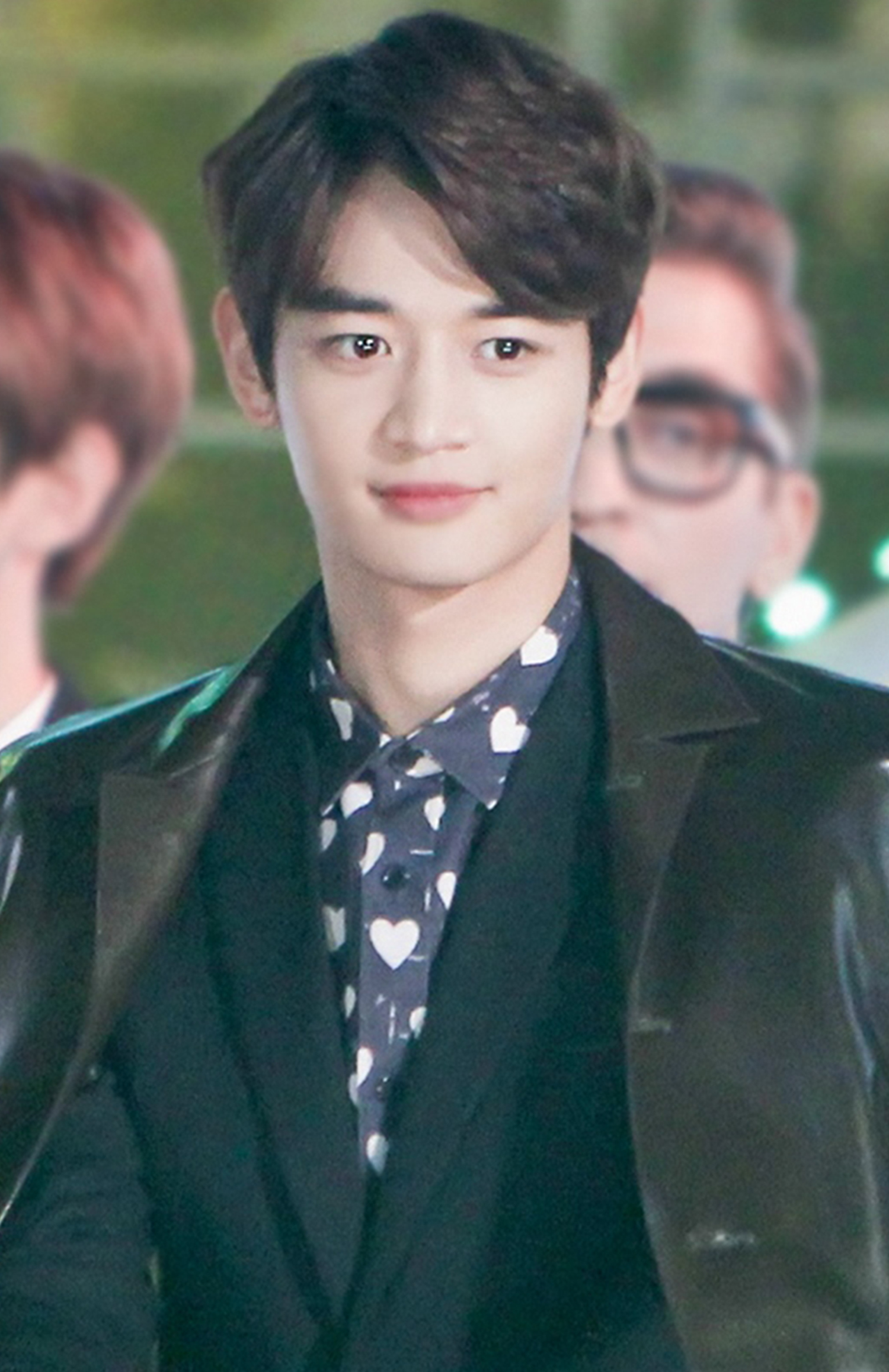 Choi Min-ho during the 5th Melon Music Awards on November 14, 2013.